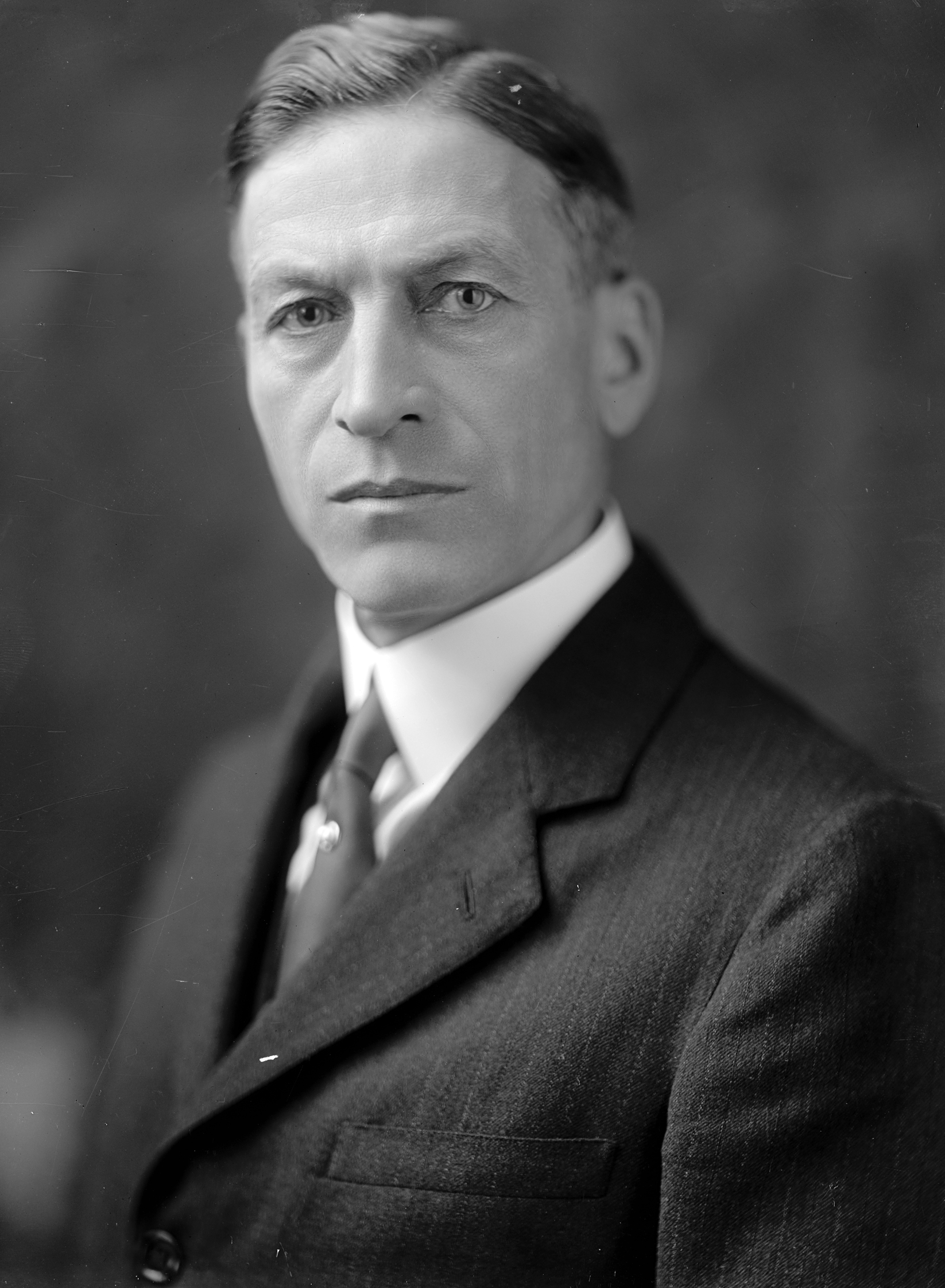 Ole J. Kvale, US Representative from Minnesota